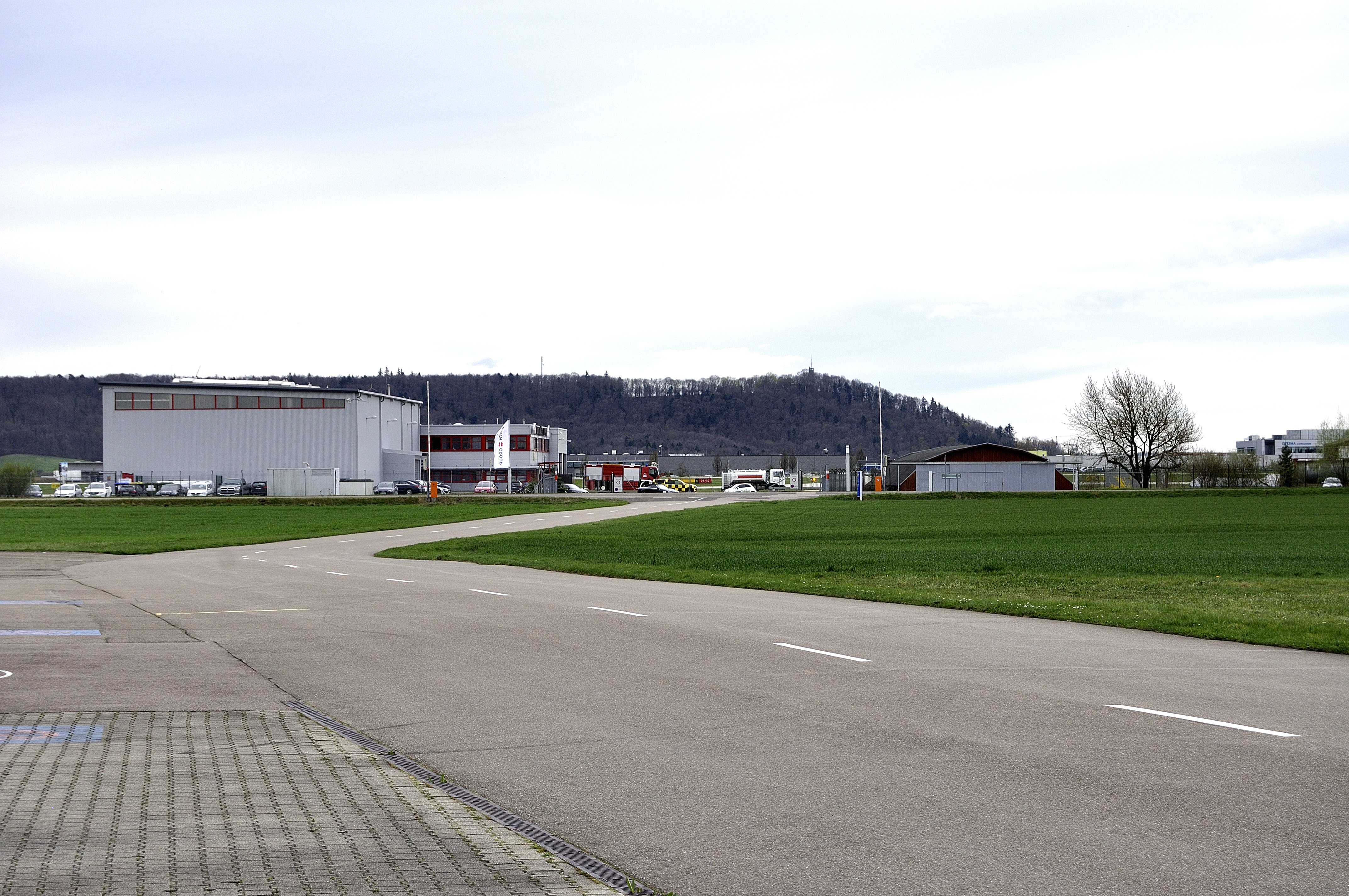 Taxiway from EDTX to EDTY